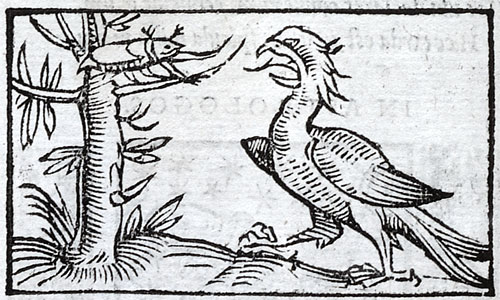 The emblem of the eagle and the beetle, deriving from Aesop's Fables, from Andrea Alciato’s Emblematum Liber (1534)